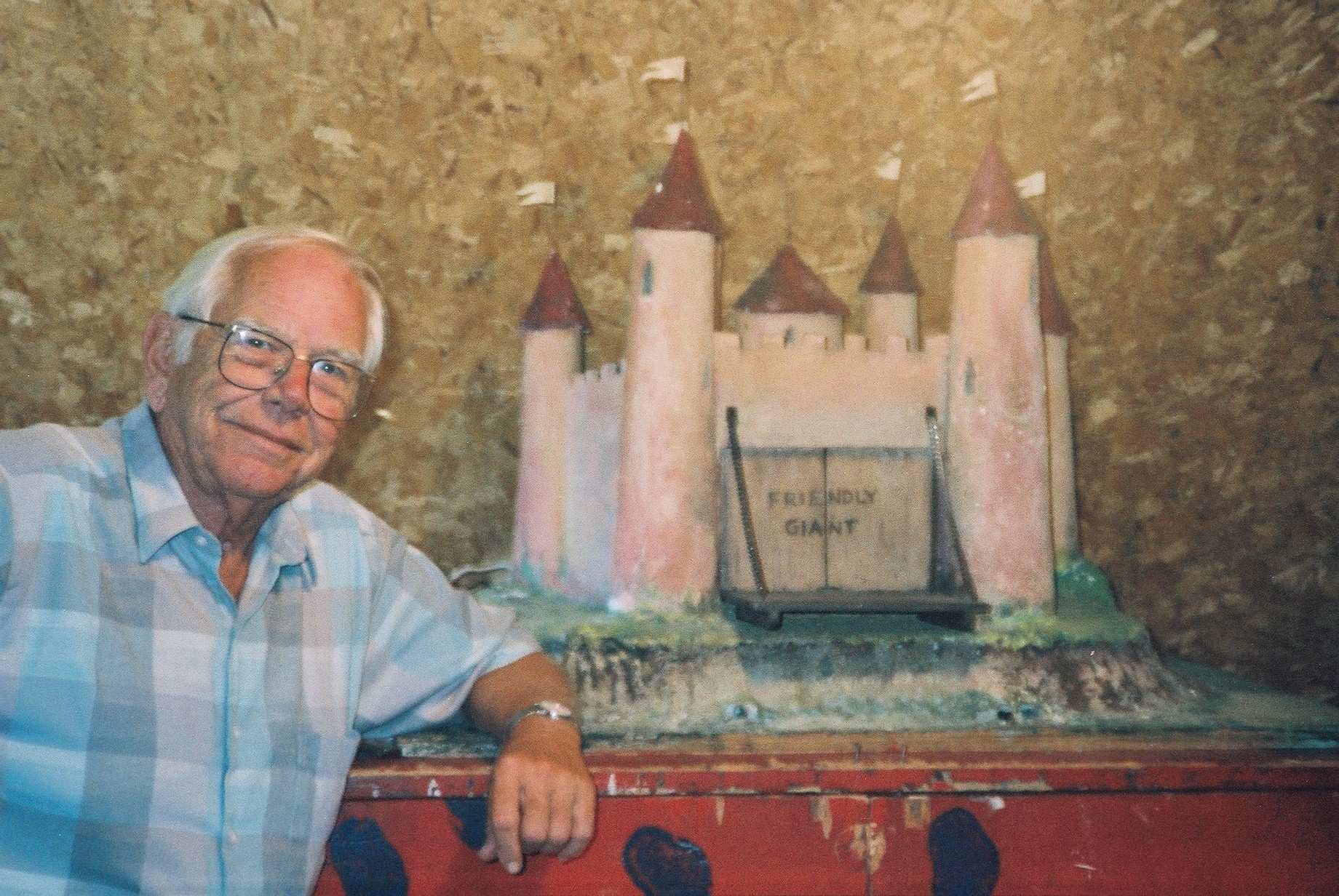 A portrait of Bob Homme with the castle of The Friendly Giant, a popular Canadian show from the 1950s to 1980s, in the background.